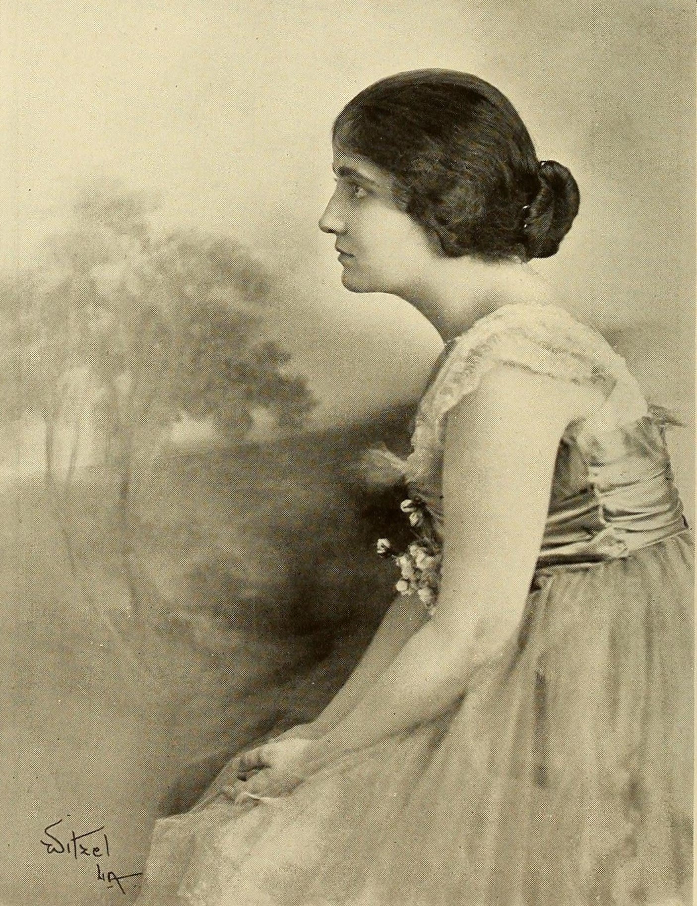 Portrait of Clara Williams by Albert Witzel